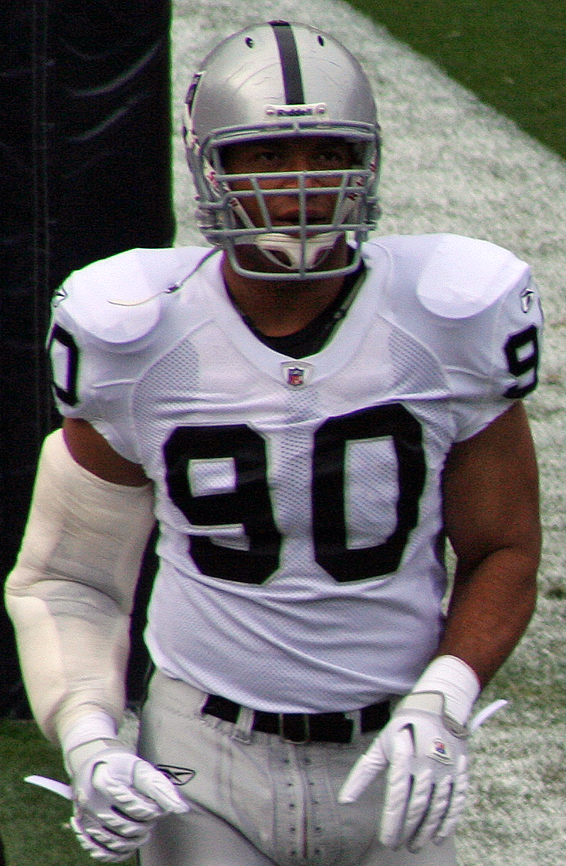 Desmond Bryant, a defensive lineman on the Oakland Raiders American football team.